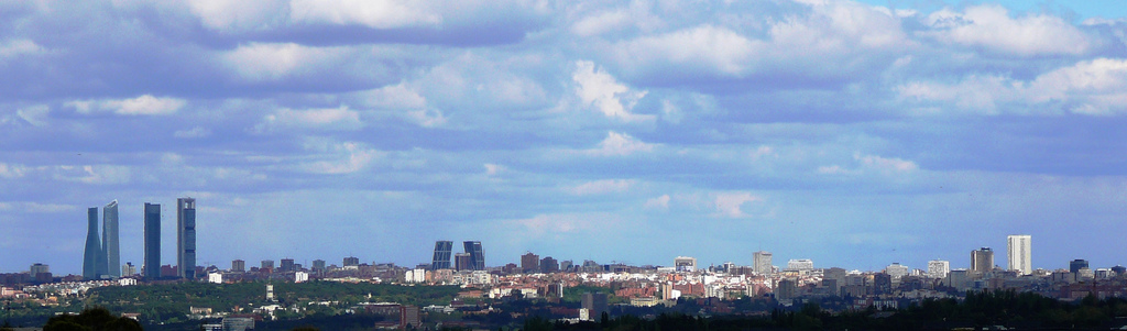 View of Madrid (Spain) from Somosaguas (in Pozuelo de Alarcón).